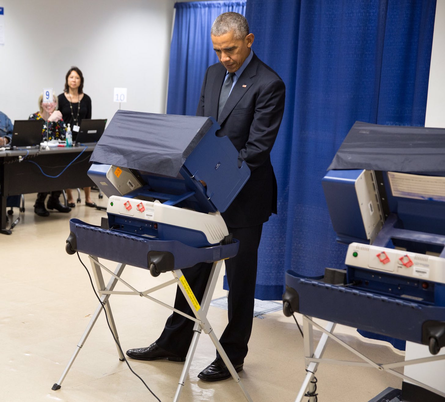 Barack Obama takes advantage of early voting at his Chicago precinct